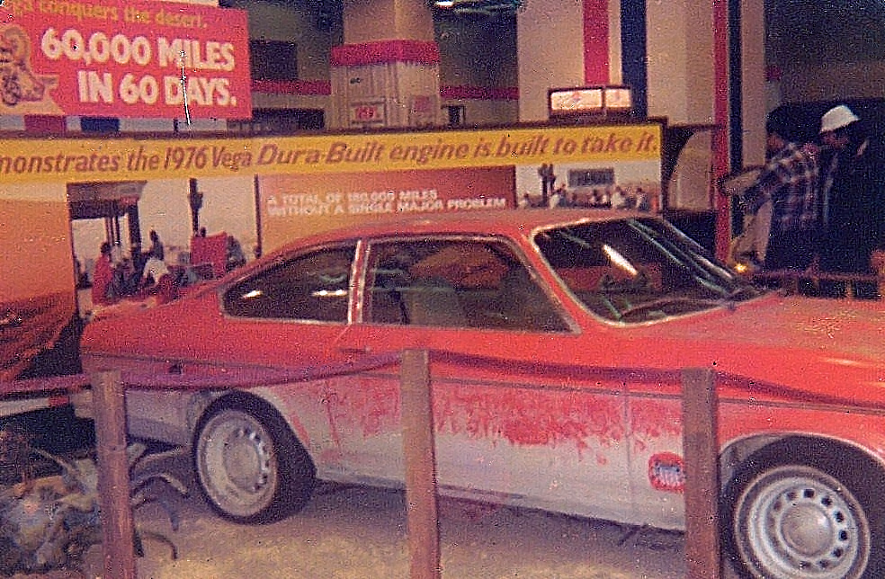 1976 Chevrolet Vega-60,000 mile Test